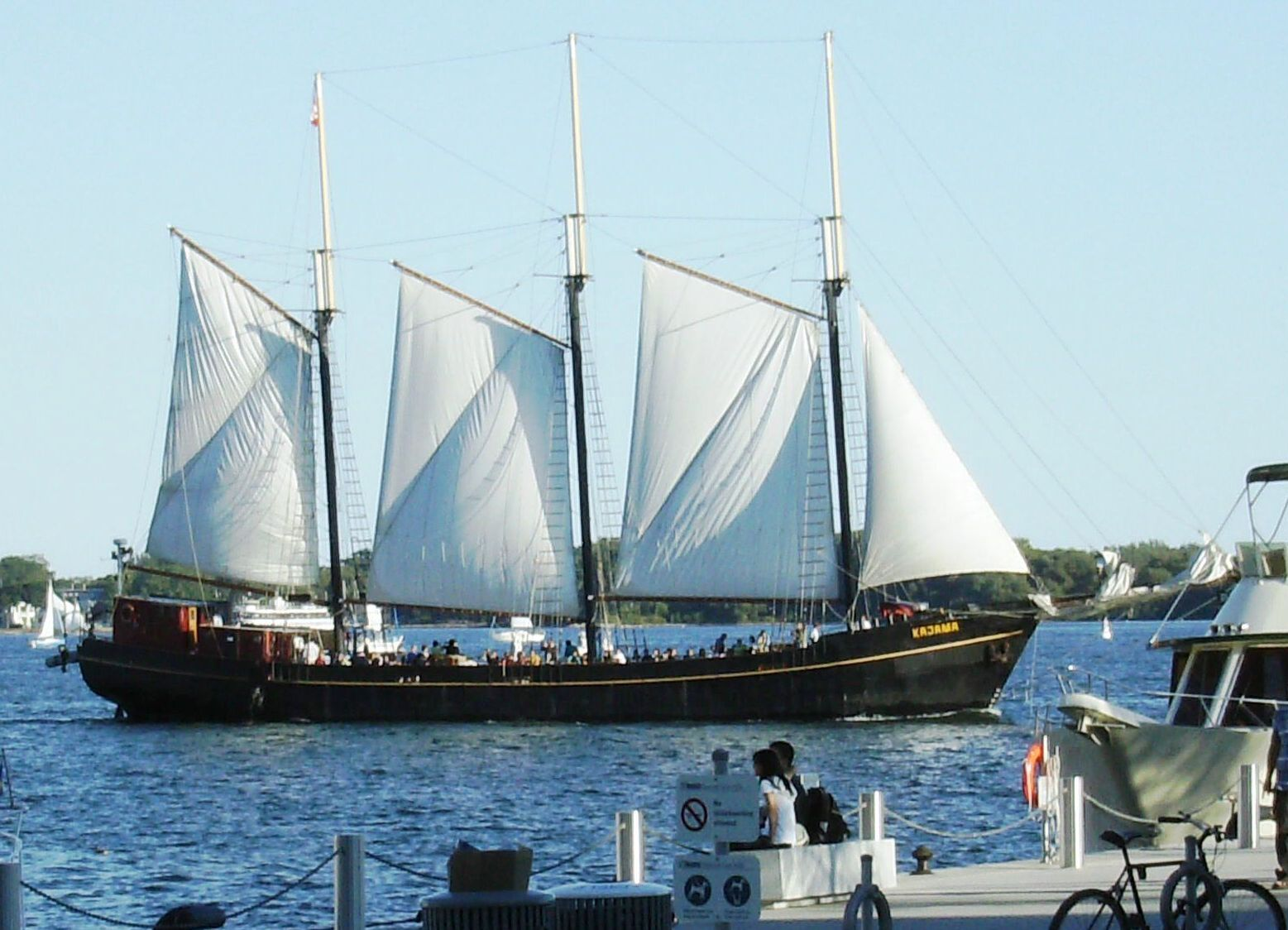 Kajama in Toronto Information about Kajama may be found at IMO 5389578. A ship can change name and flag state through time, but the IMO number remains the same through the hull's entire lifetime. As a result, it can be useful to identify a ship by using the IMO number.